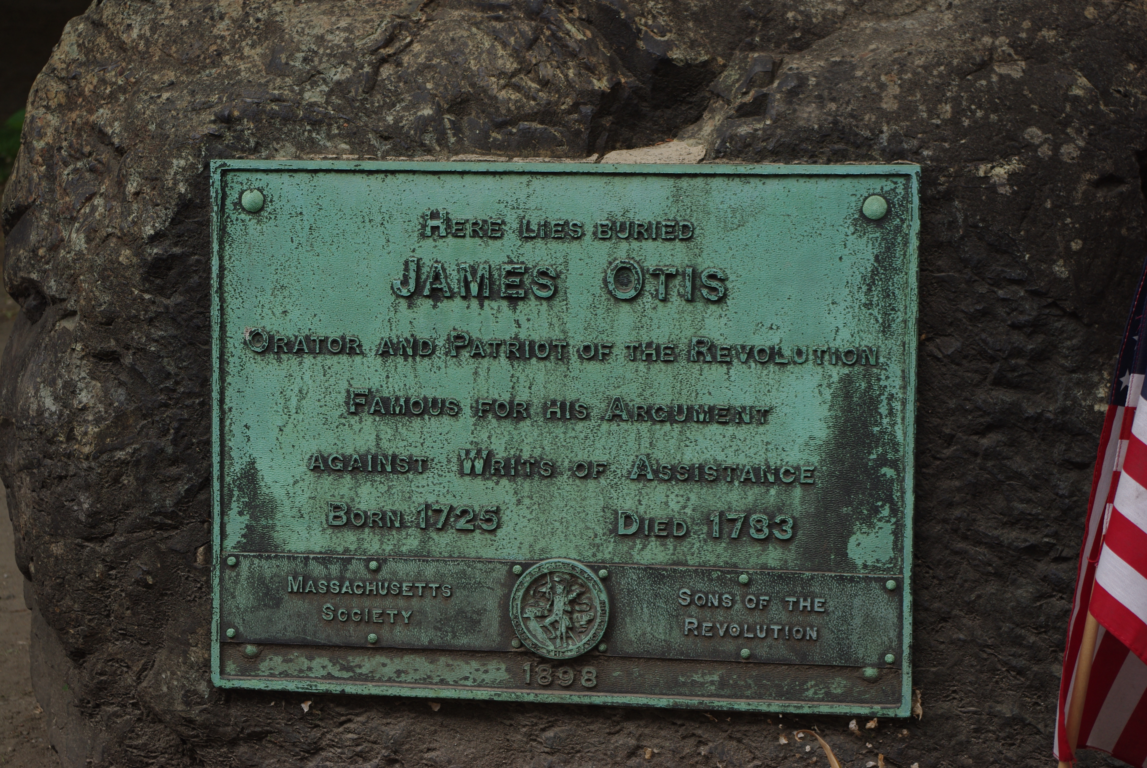 The memorial plaque over the tomb of James Otis Jr, early American Revolutionary.